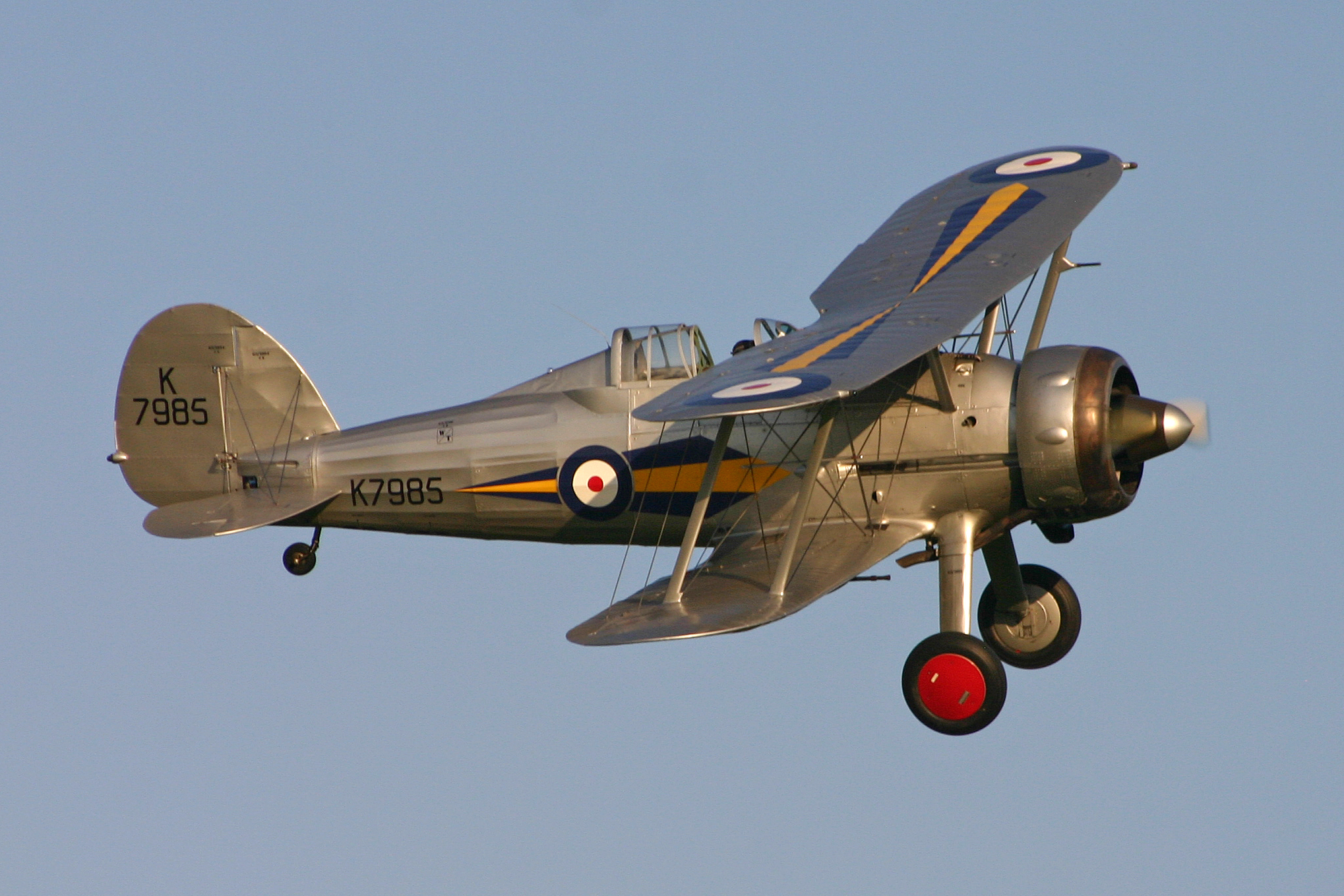 In 73sqn markings. Really ex RAF 'L8032'. Displaying at Old Warden. 02-10-2011